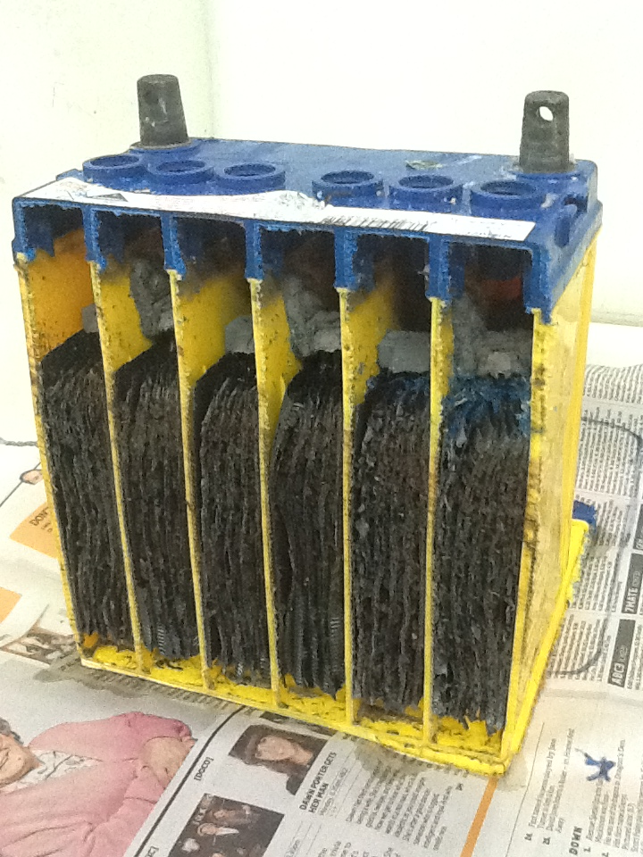 A regular 12 V car battery with the front casing cut off.